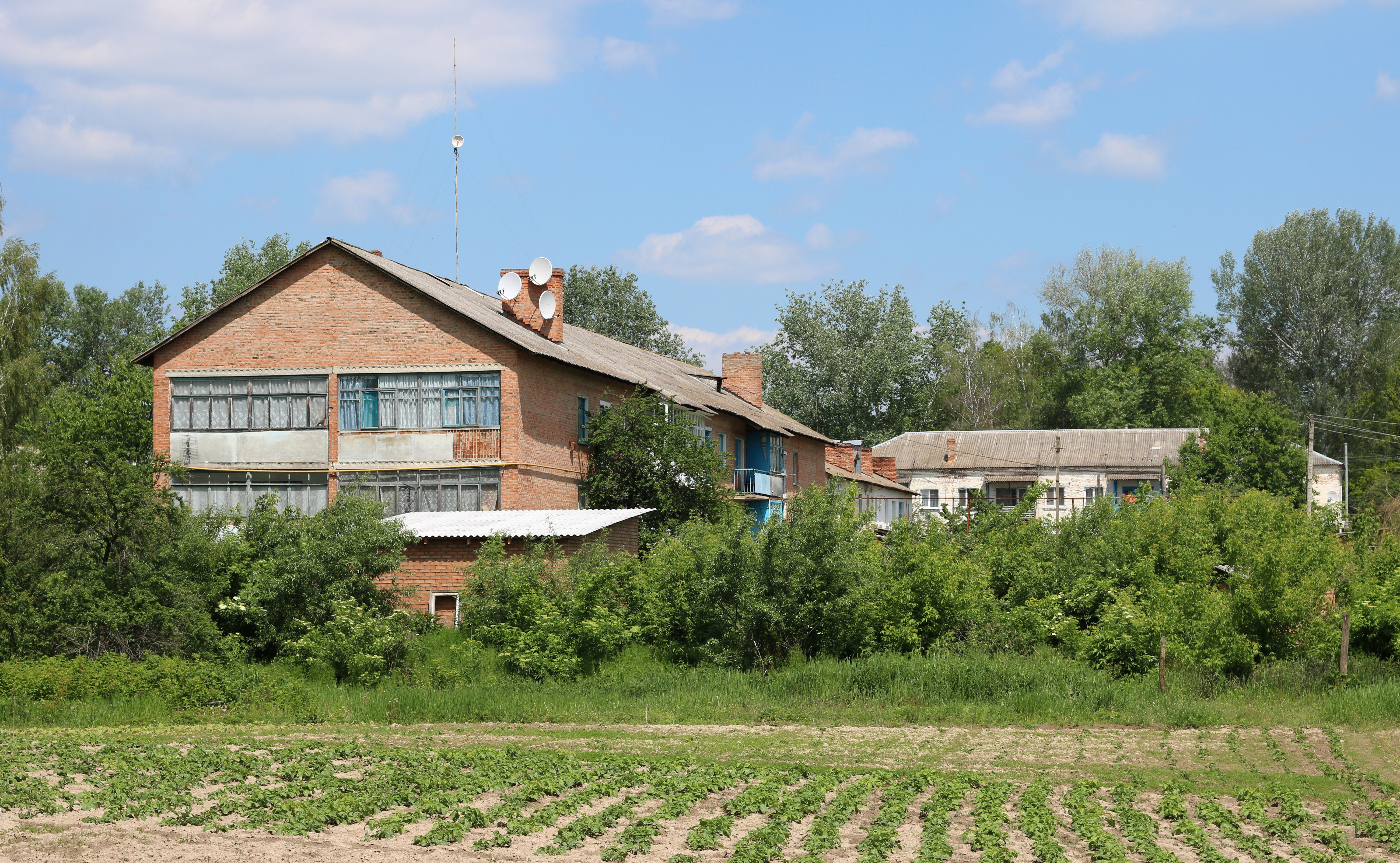 Settlement Slavne near Vinnytsia, Ukraine